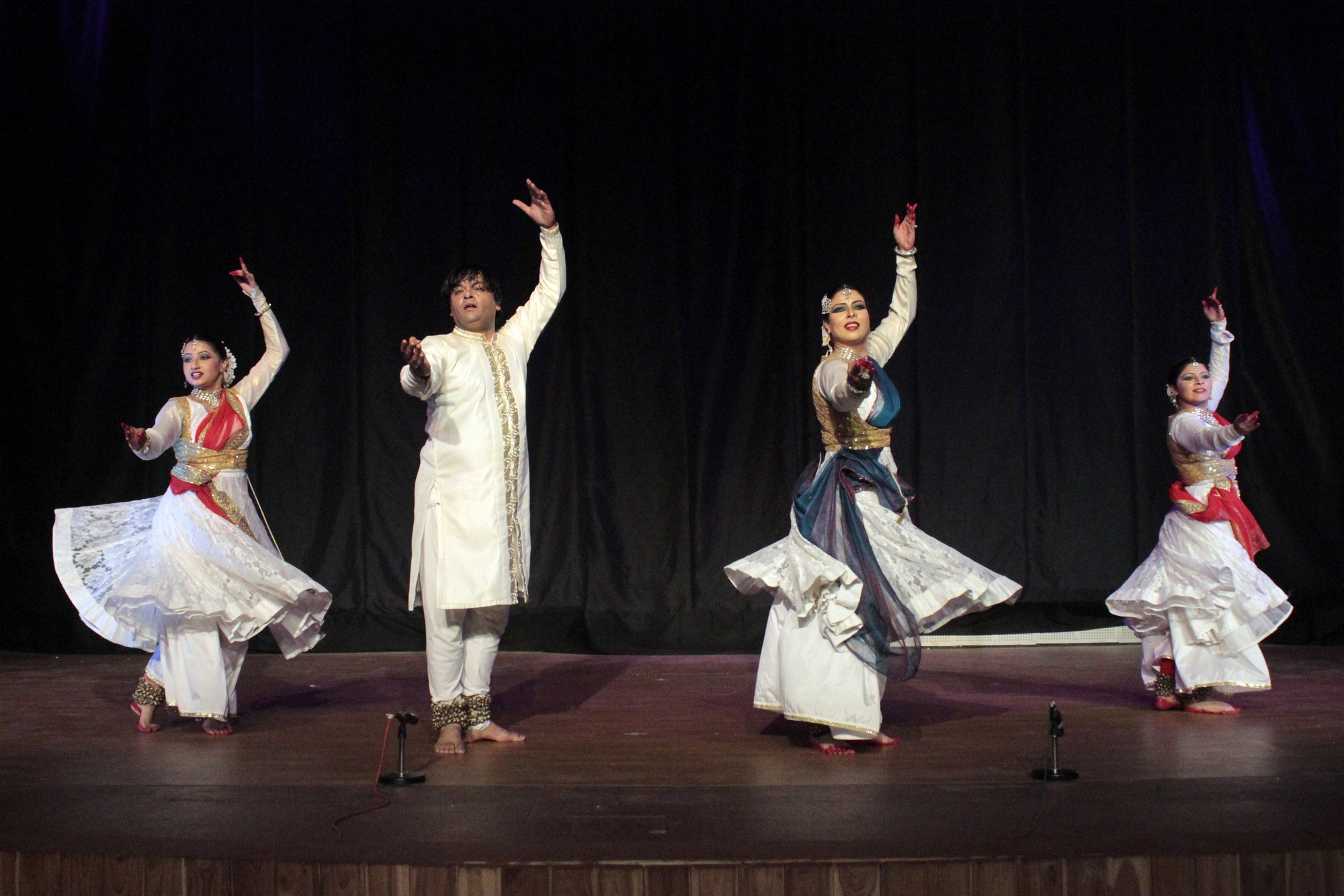 Kathak Facial Expressions